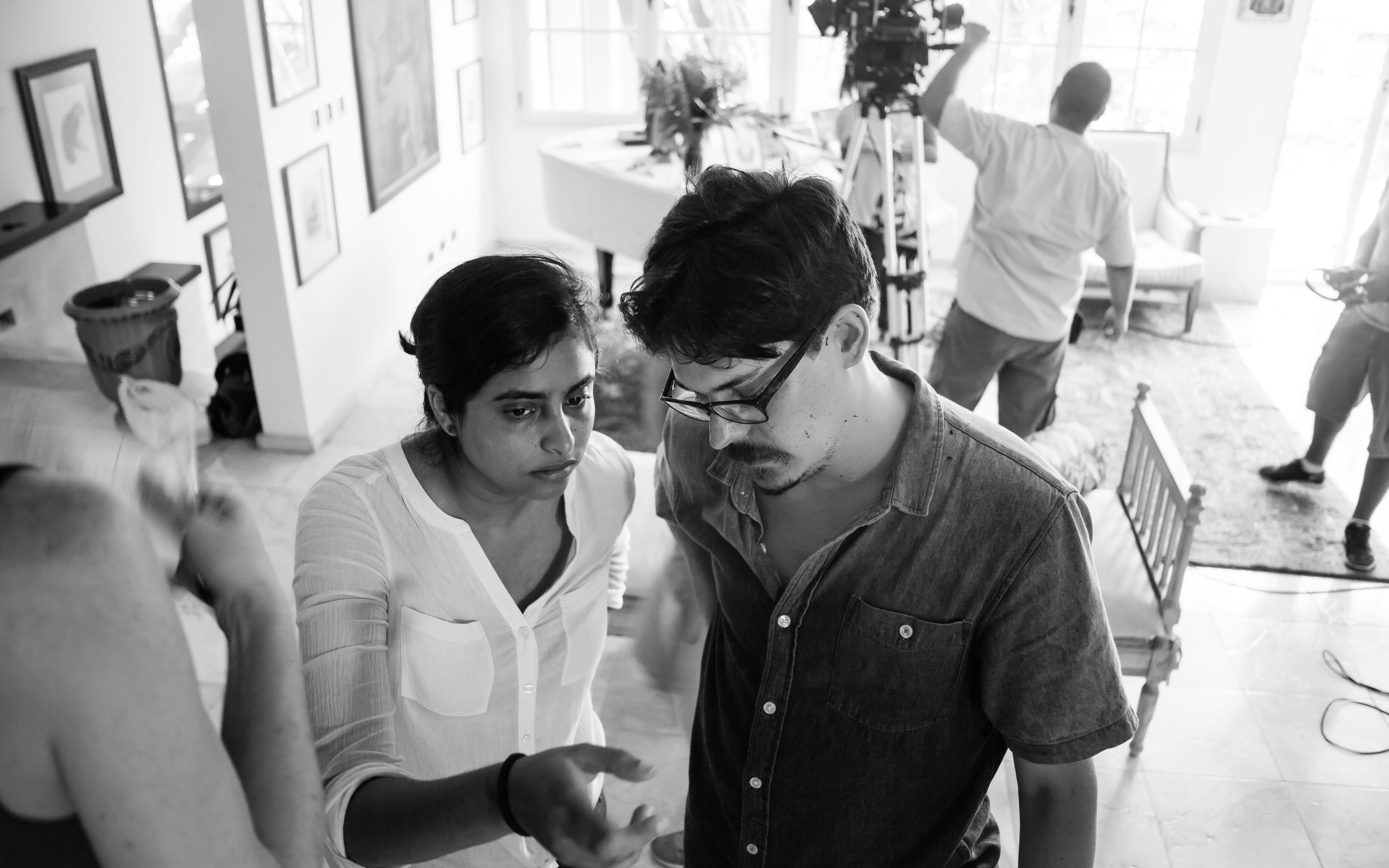 Natalia Cabral and Oriol Estrada during the shooting of Miriam Lies